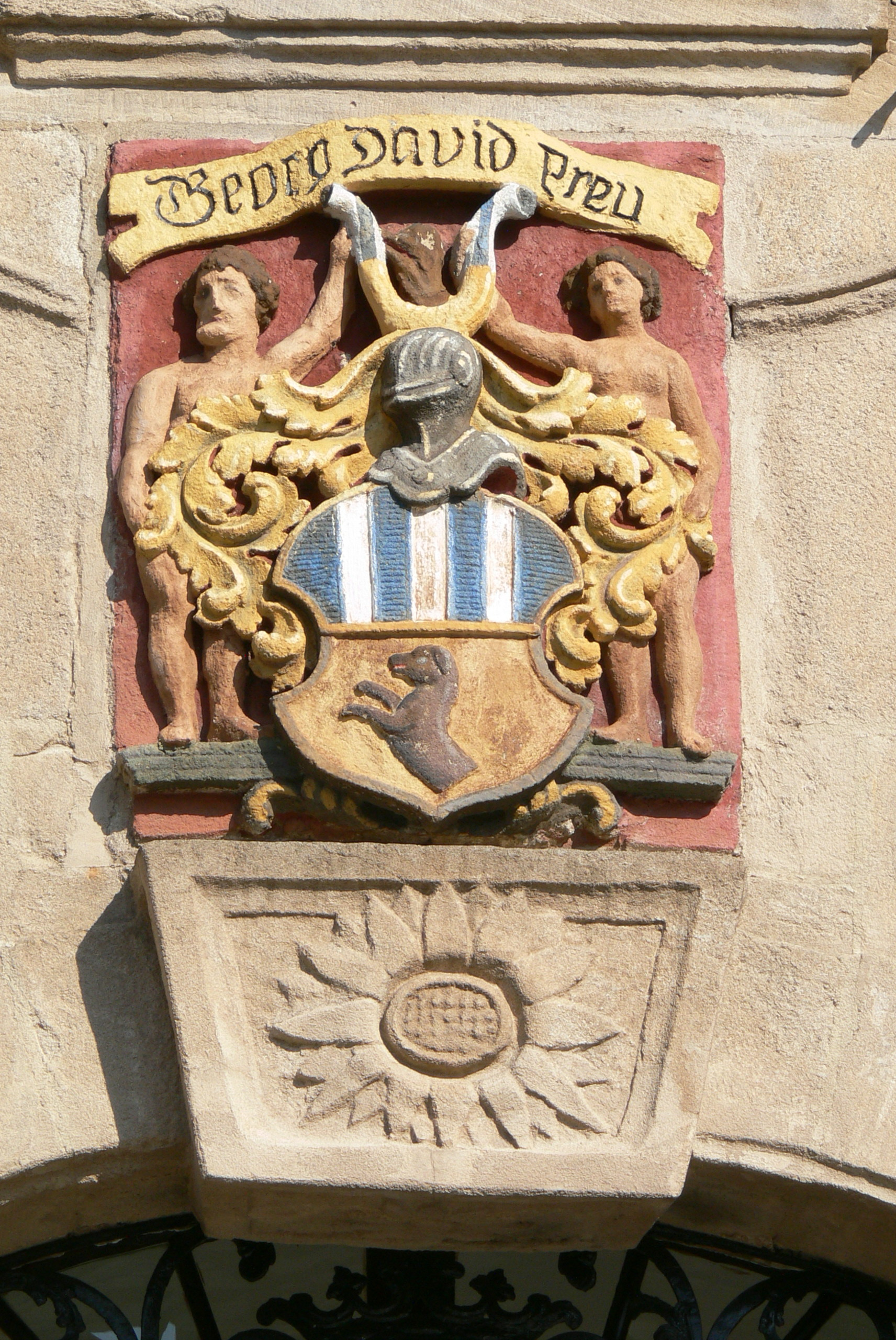 Weißenburg ( Bavaria ). Market square Nr. 9: Coats of arms.